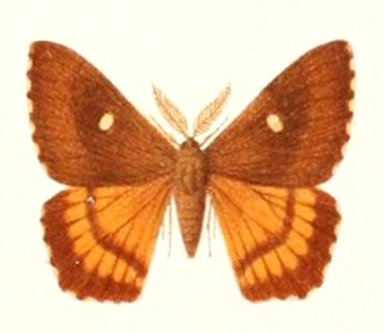 « Cercophana mirabilis » = Microdulia mirabilis - male